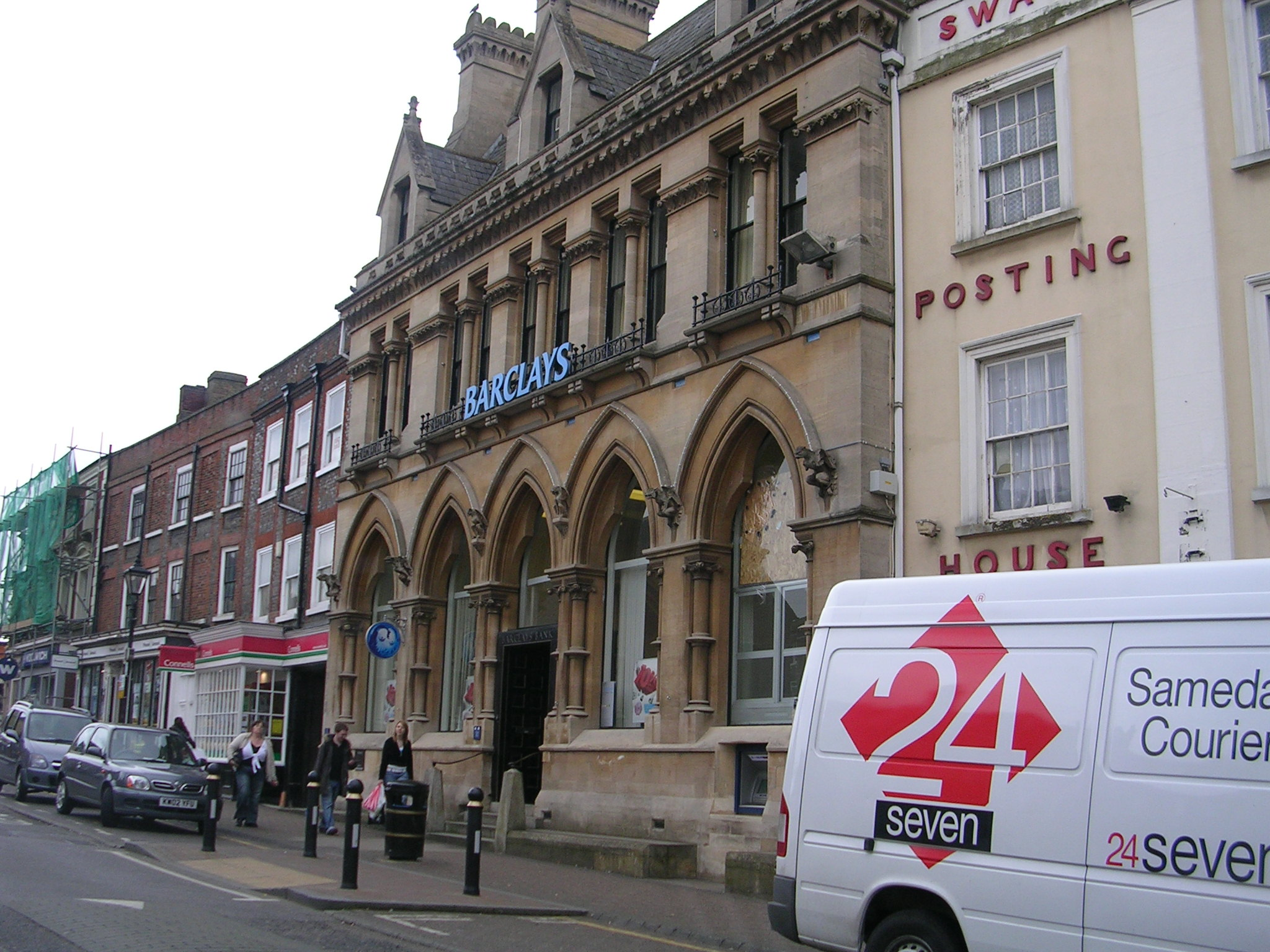 Original image by Giano, loaded as Image:DSCN0455.JPG, which was overloaded with another image. Loading with more unique filename. Leighton Buzzard, High Street. The former "Bassett's Bank" (now Barclays Bank) designed by the eminent Victorian architect Alfred Waterhouse.